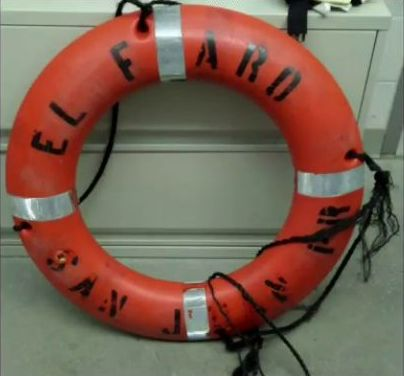 Screengrab from a video released by the US Coast Guard Southeast showing a life ring from the missing ship El Faro